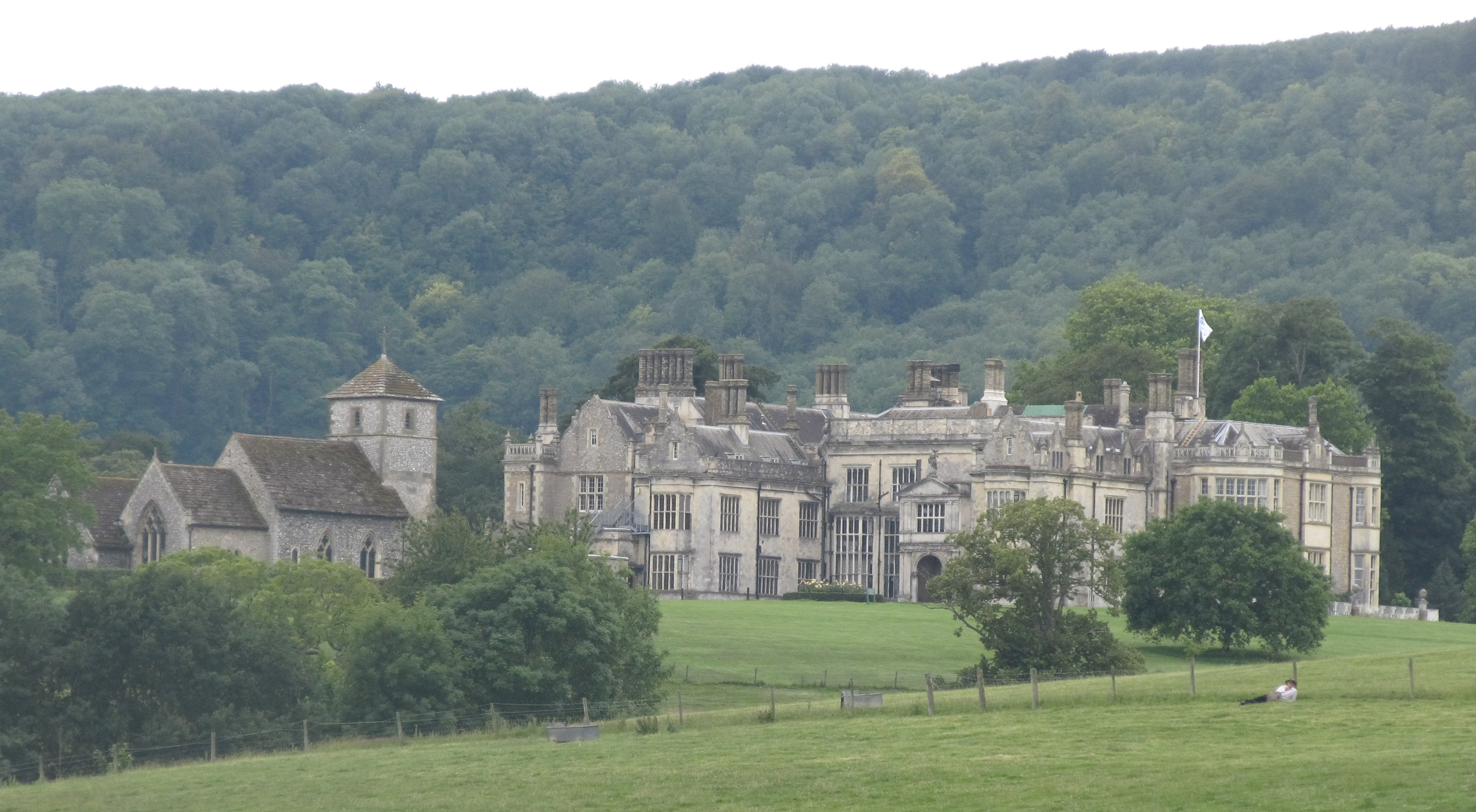 Wiston House, near Steyning in West Sussex, England.